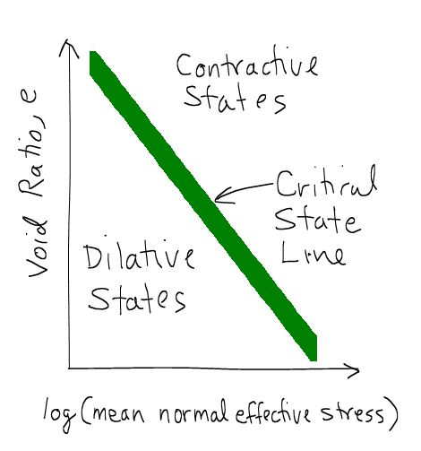 Soil mechanics sketch showing critical state line in a plot of void ratio against the log of the mean normal effective stress.